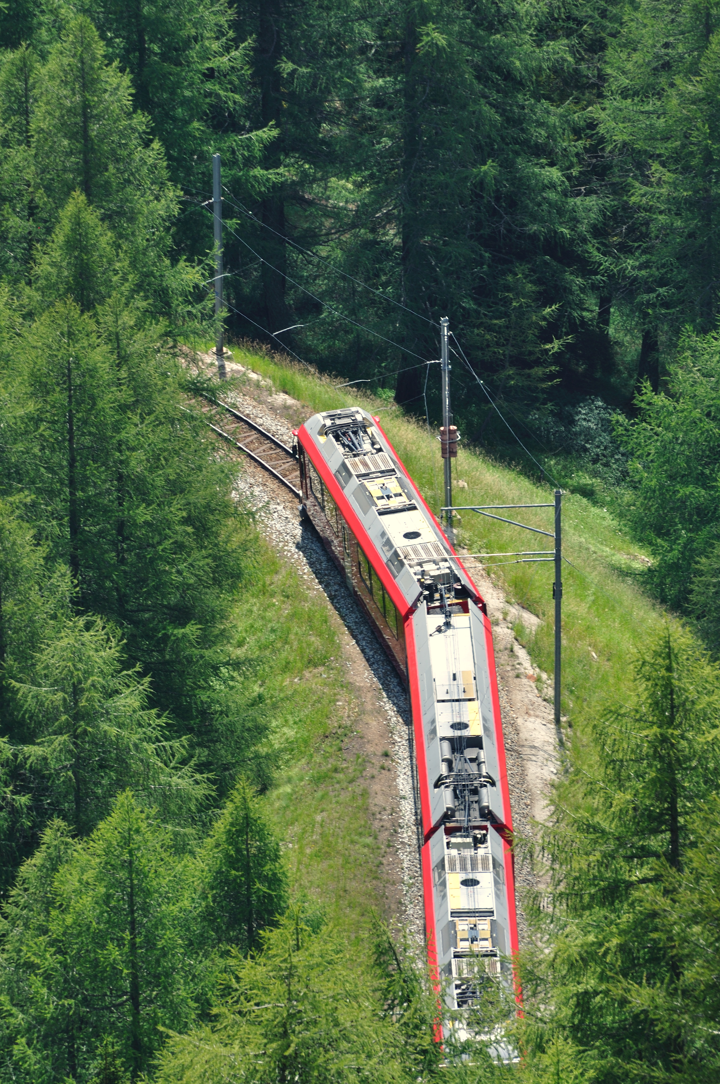 Switzerland, Graubünden, Bernina line of the Rhaetian railway from Alp Grüm